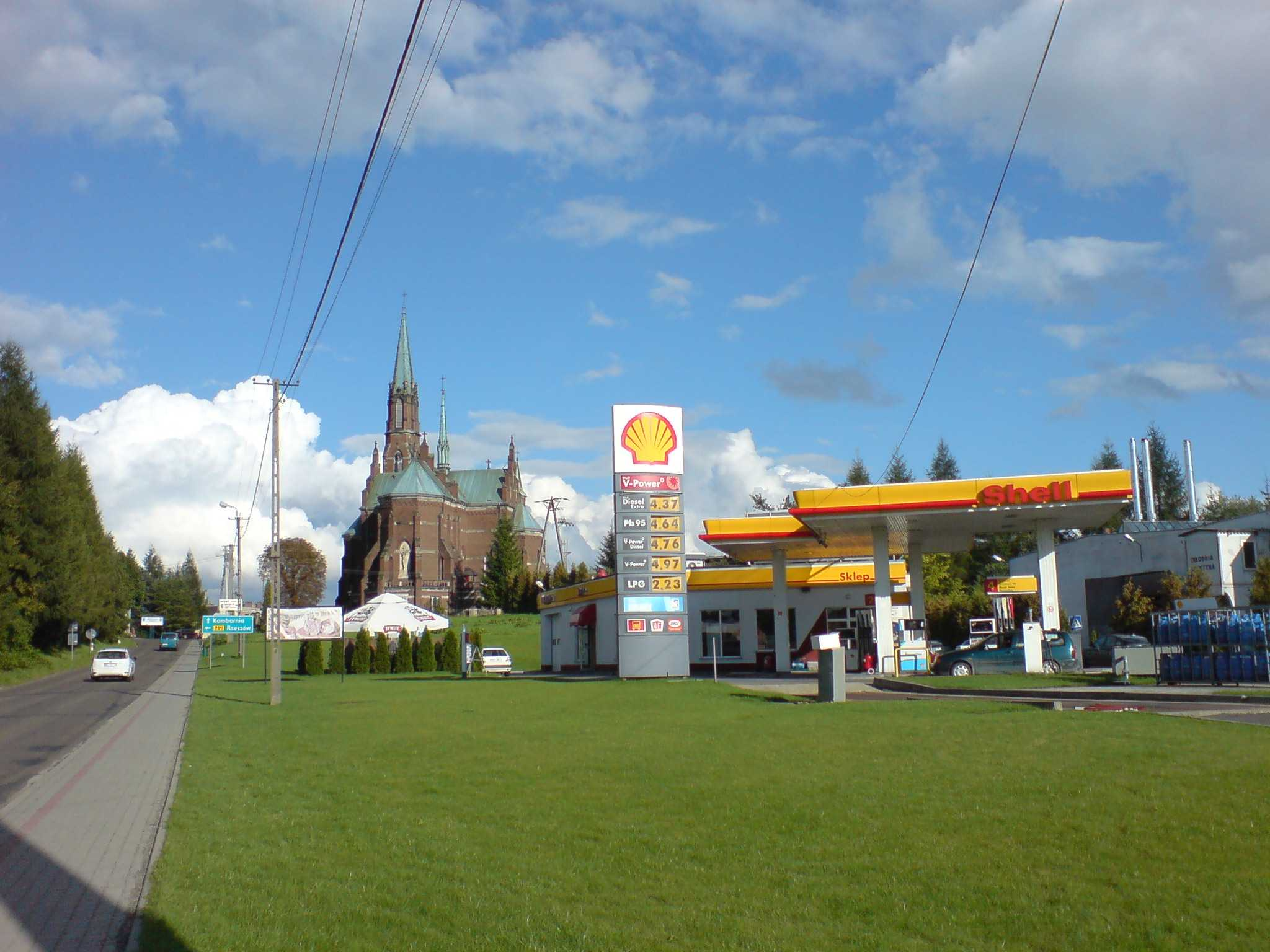 Shell